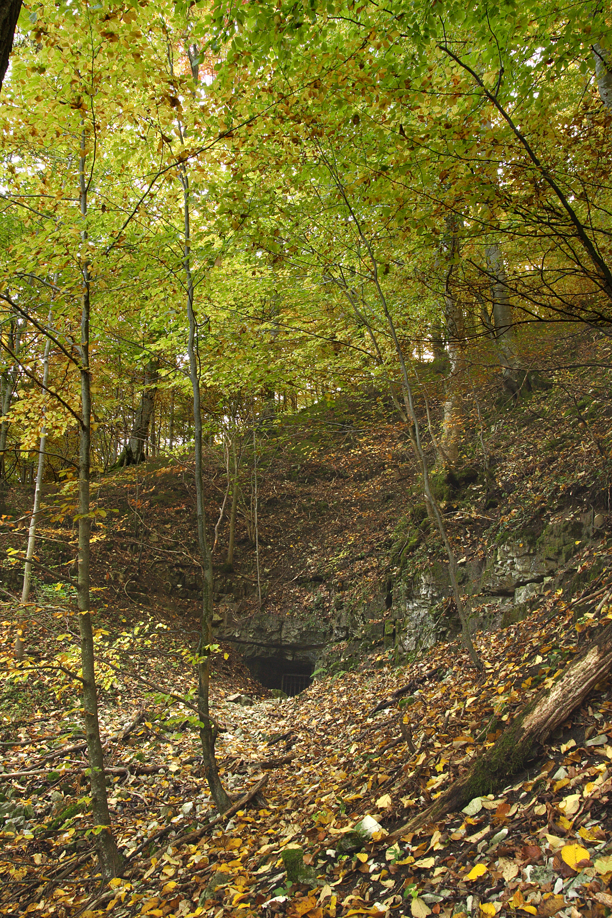 "Willmandinger Bröller", water cave (or karst spring) - but running episodically only in rainy years, if the water table rises significantly, Swabian Alb, 690 m NN.